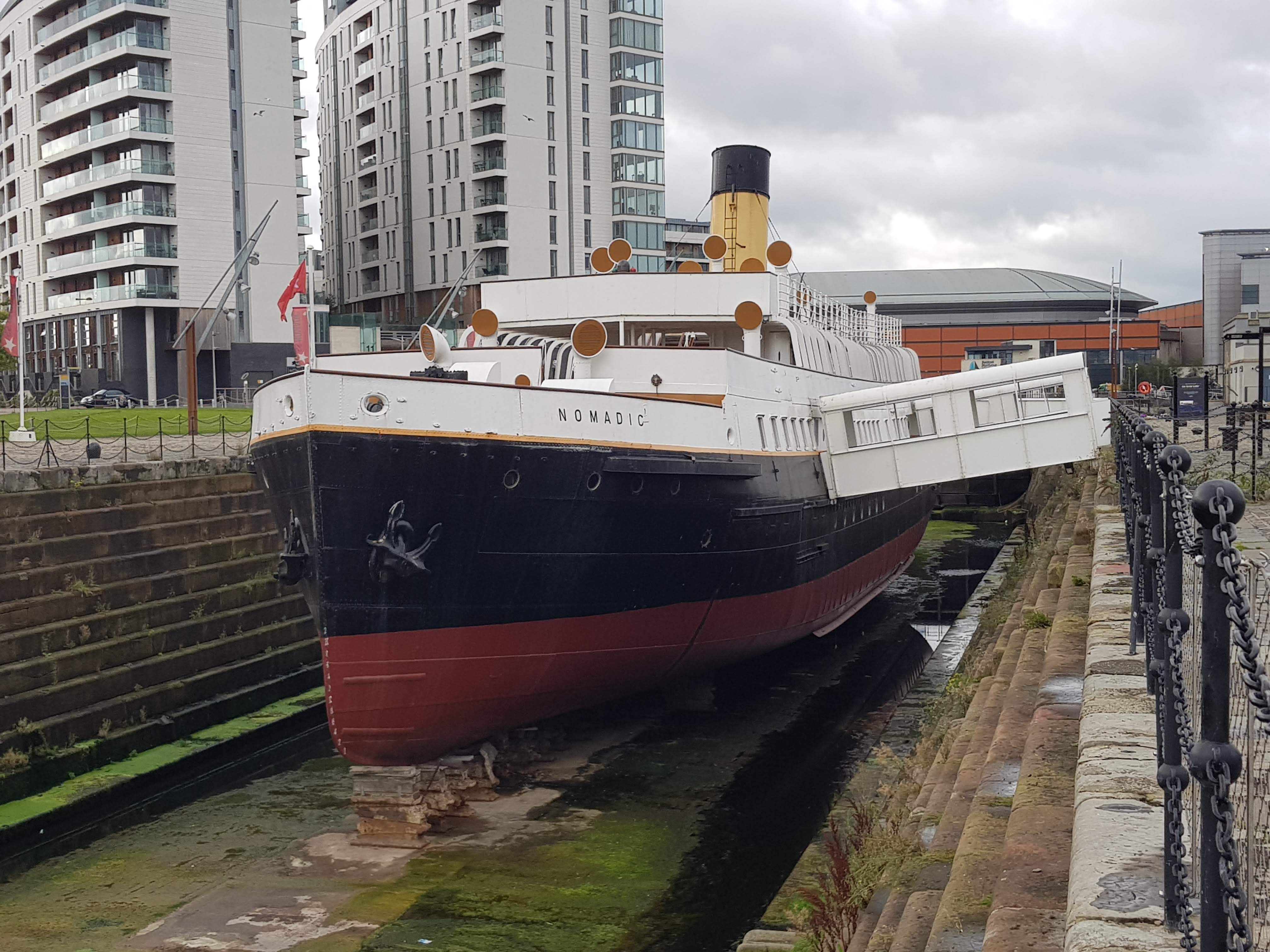 SS Nomadic (1911), last surviving White Star Line vessel